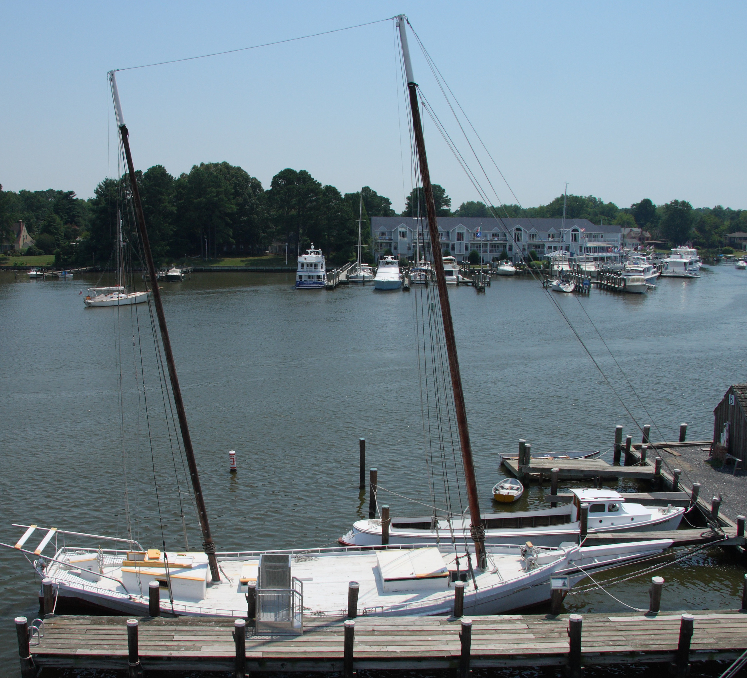 Edna E. Lockwood, Chesapeake Bay bugeye, from the lighthouse at the Chesapeake Bay Maritime Museum, Saint Michaels, Maryland